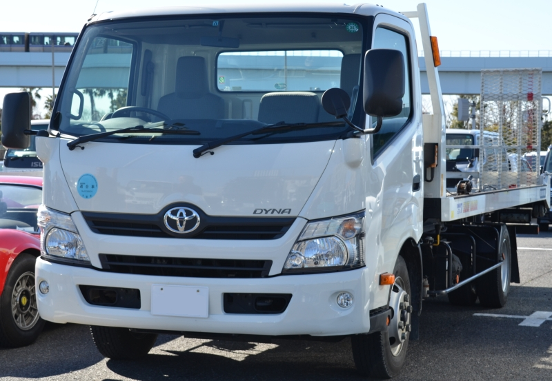 Toyota Dyna